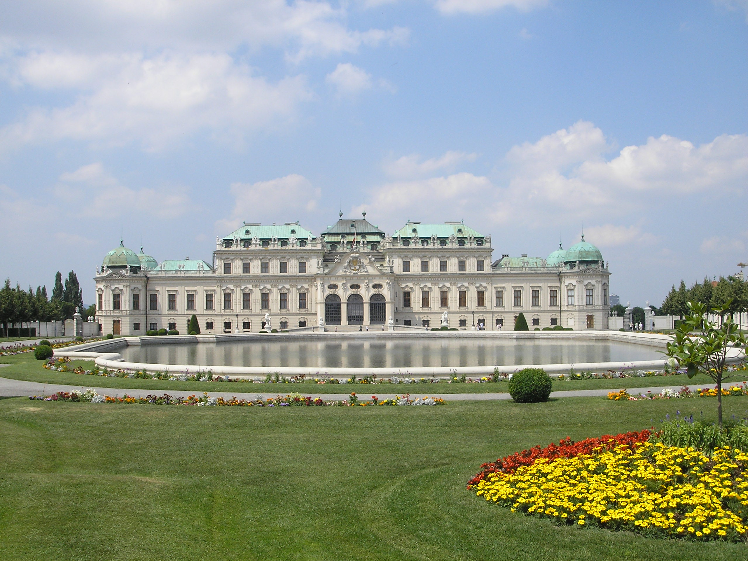 Belvedere palace in Vienna. Constructed in the baroque era for Prince Eugene of Savoy. This was his summer residence.